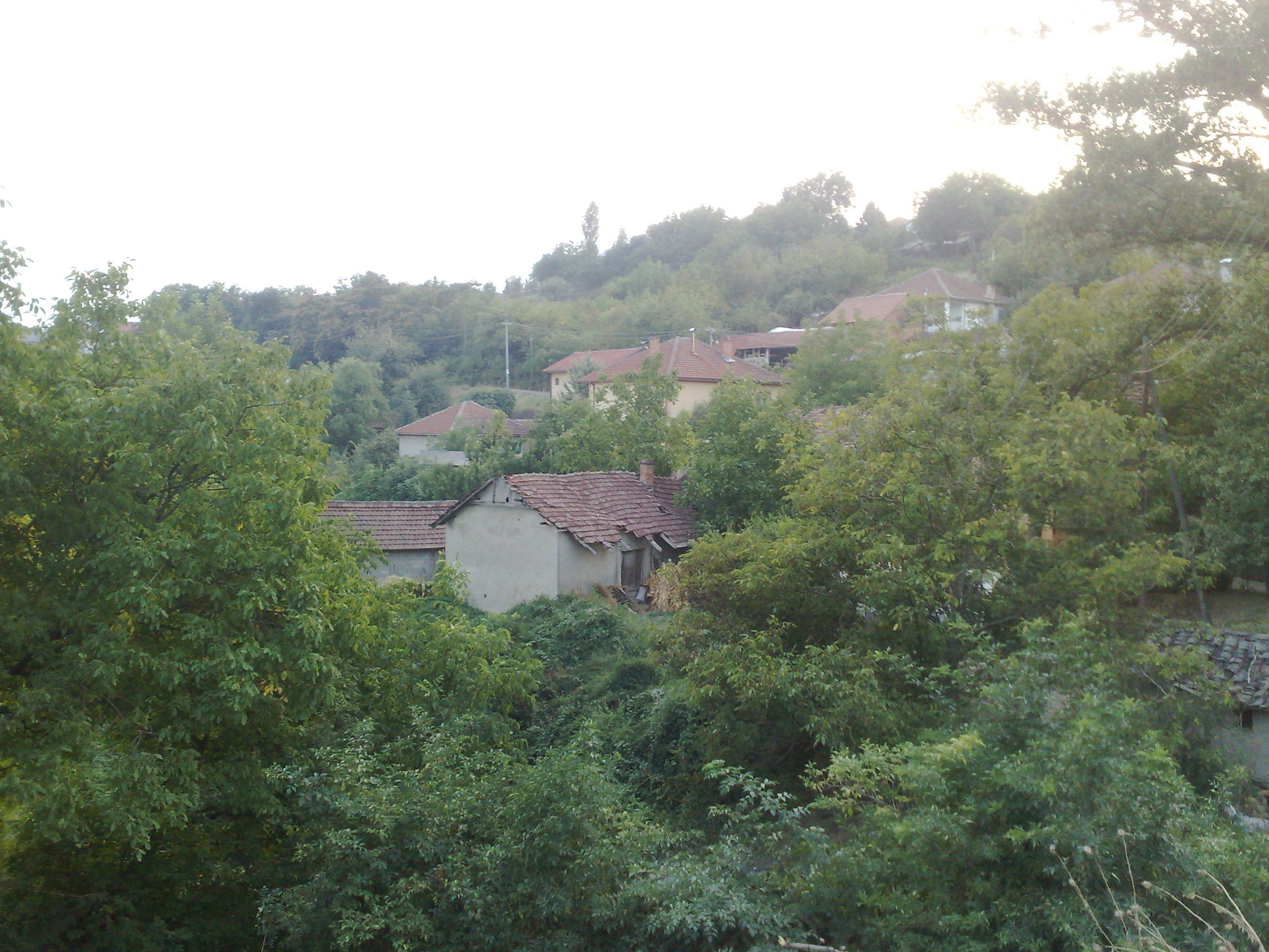 village of Bulachani, near Skopje, Macedonia